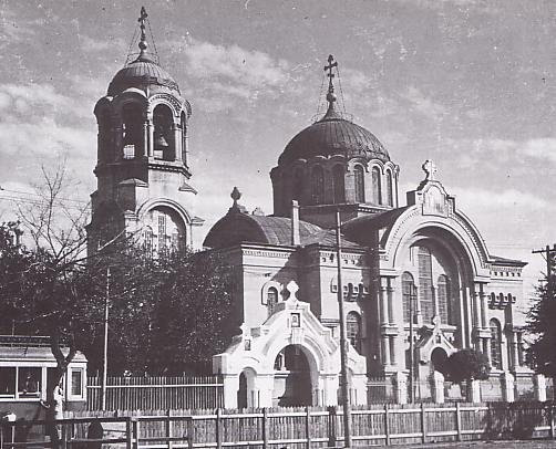 Blagoveshchensky Temple in Harbin